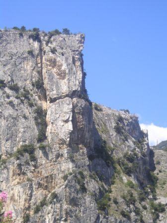 prehistoric sculptures from Dro (Italy); unknown prehistory-scultures